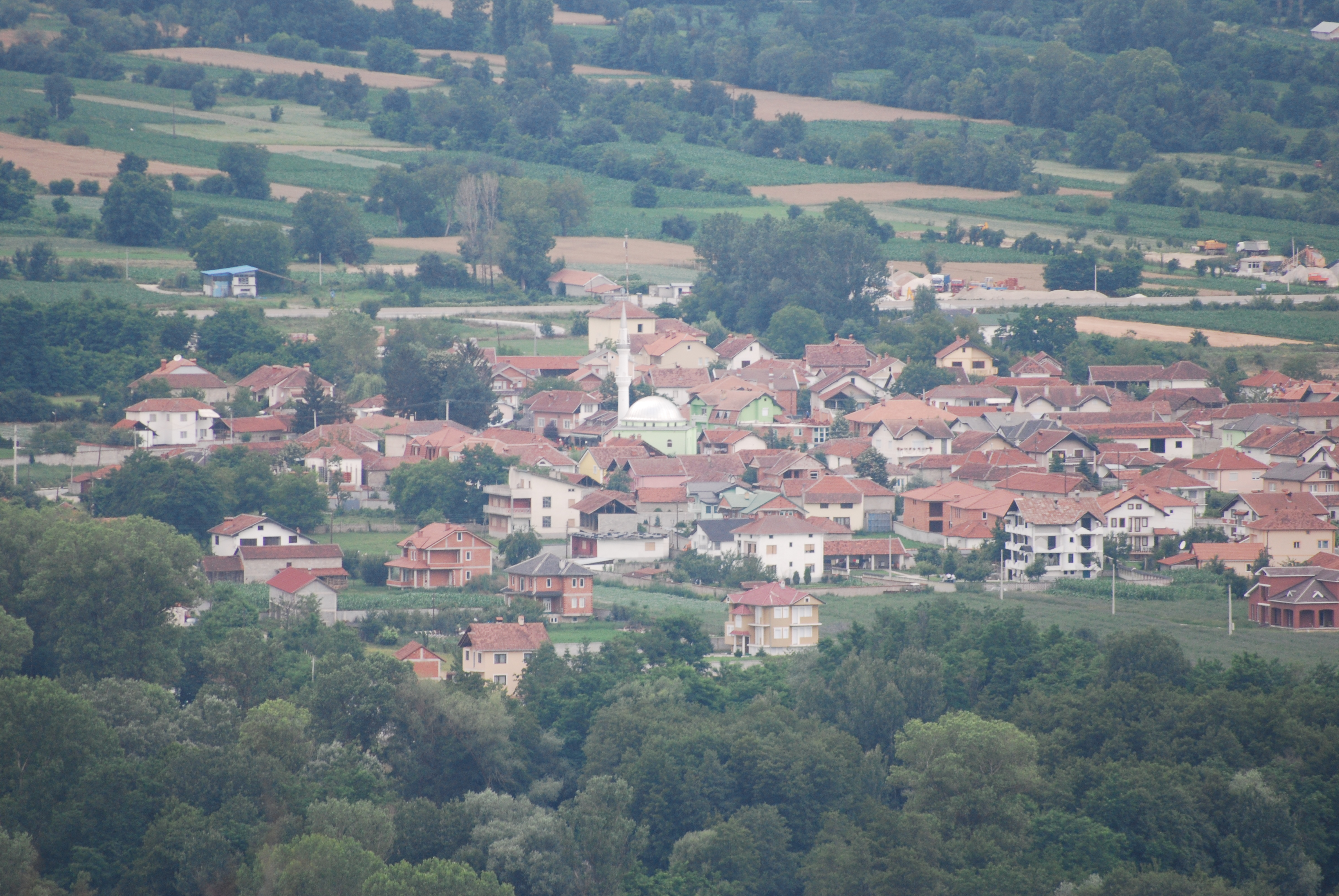 View on Žerovjane from Gorica (part of Suva Gora mountain), Polog Valley, Macedonia